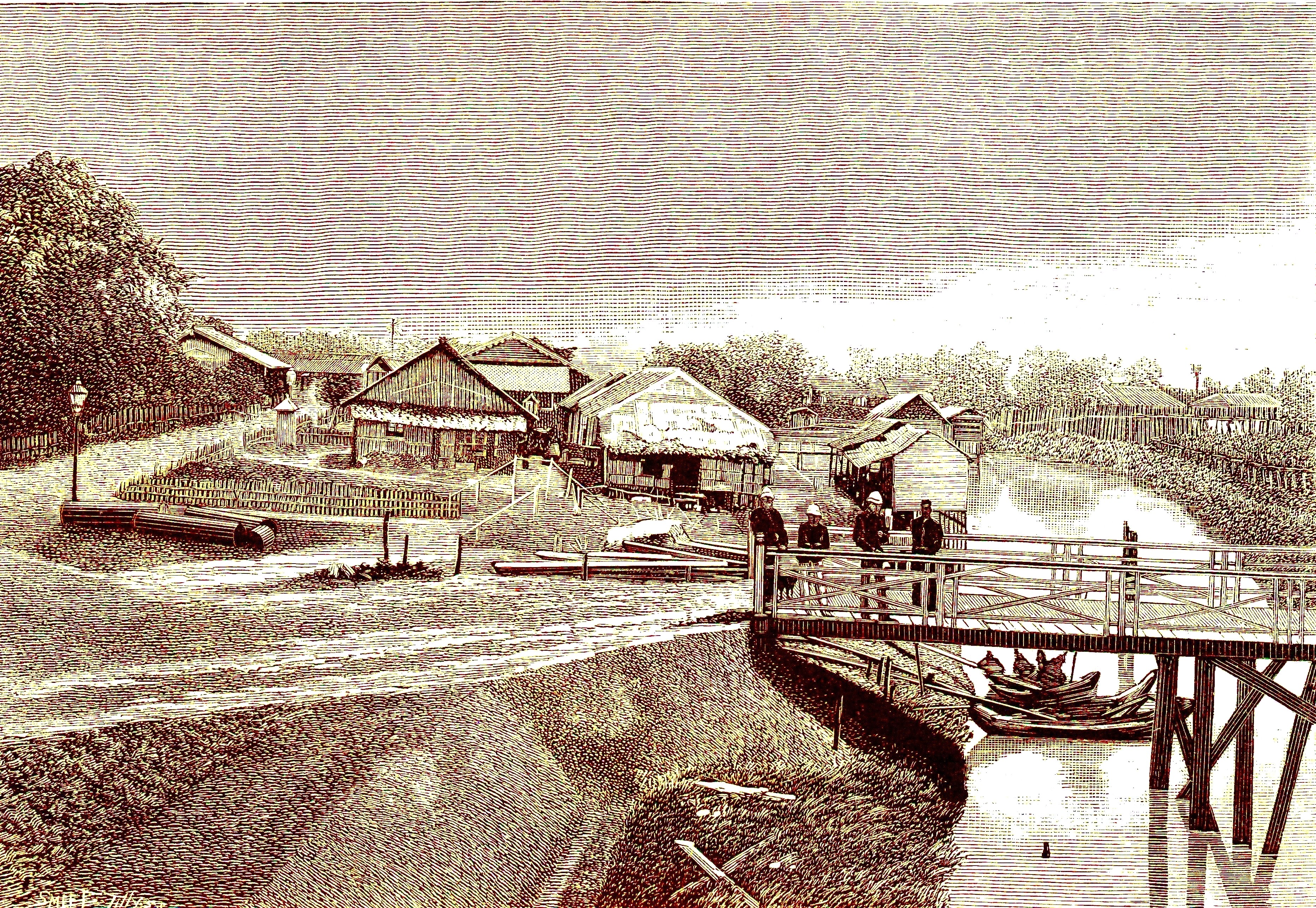 Gezicht op Pantei Perak